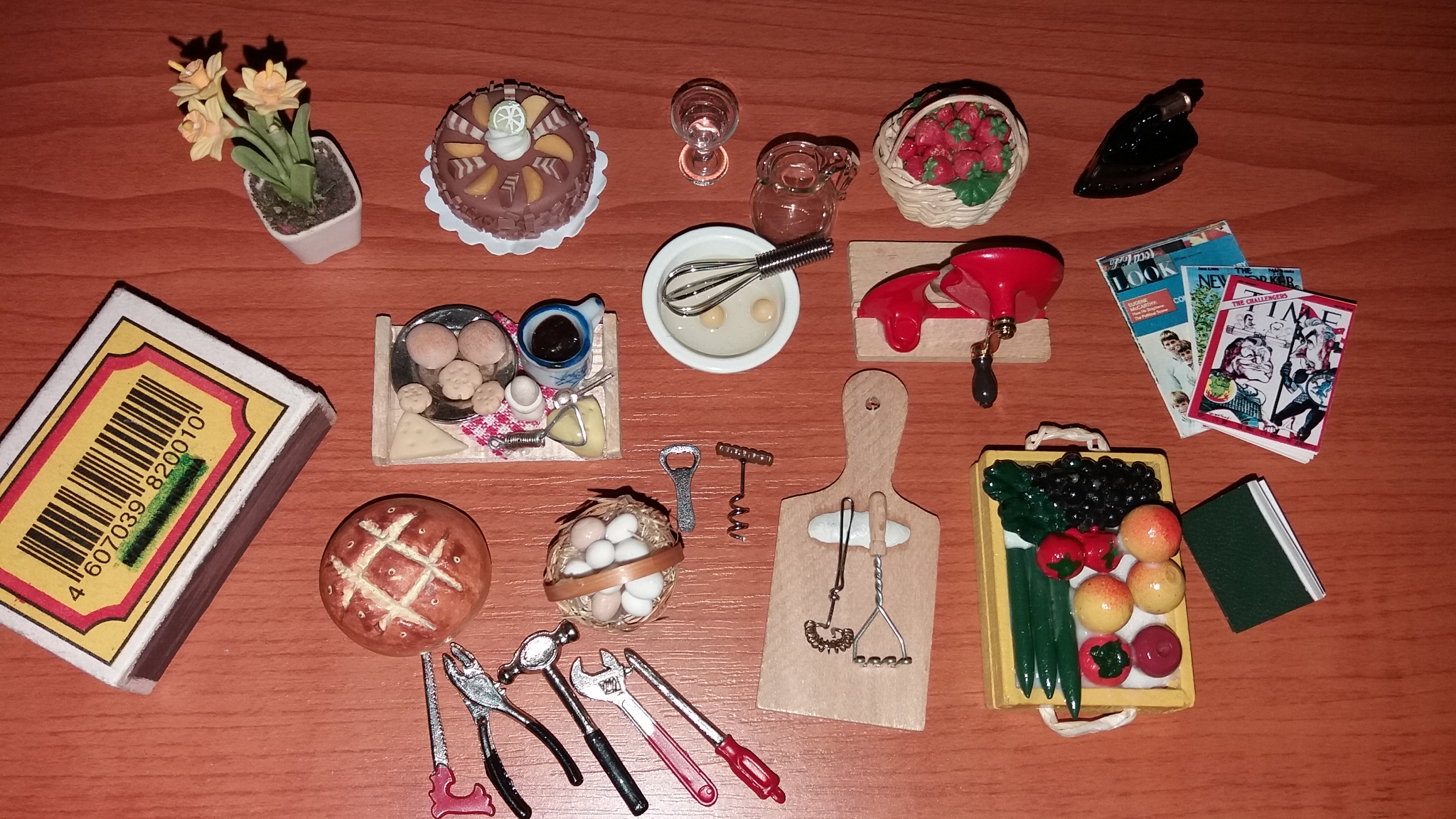 Dollhouse, items for dolls, next to matches, 2015.